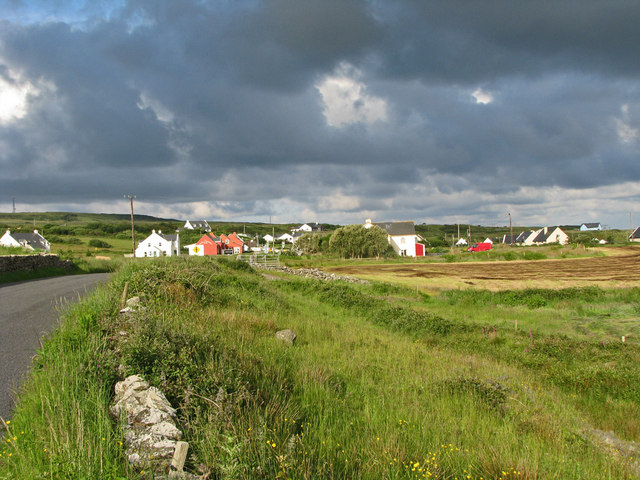 Field and homes north of the R478 road